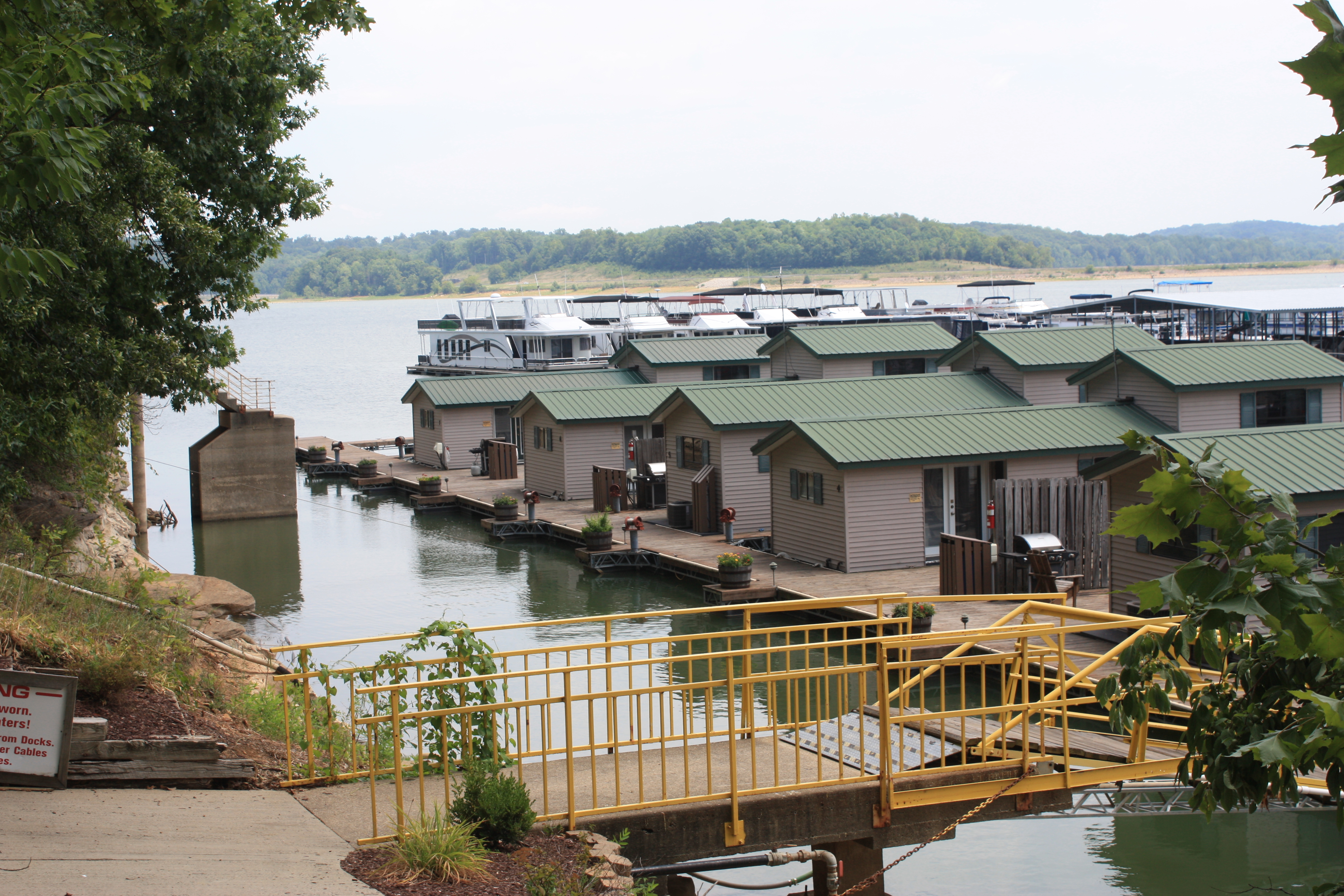 Cabins at the Patoka Lake Marina.